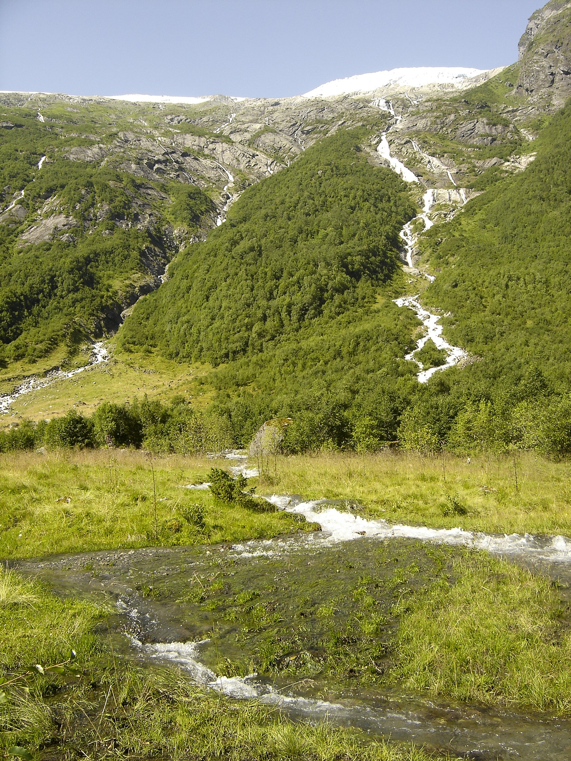 Picture is showing a short and younger canyon created by water of the Jostedalsbreen in Norway, the biggest glacier in continental europe. The difference in altitude is about almost 1000 metres.